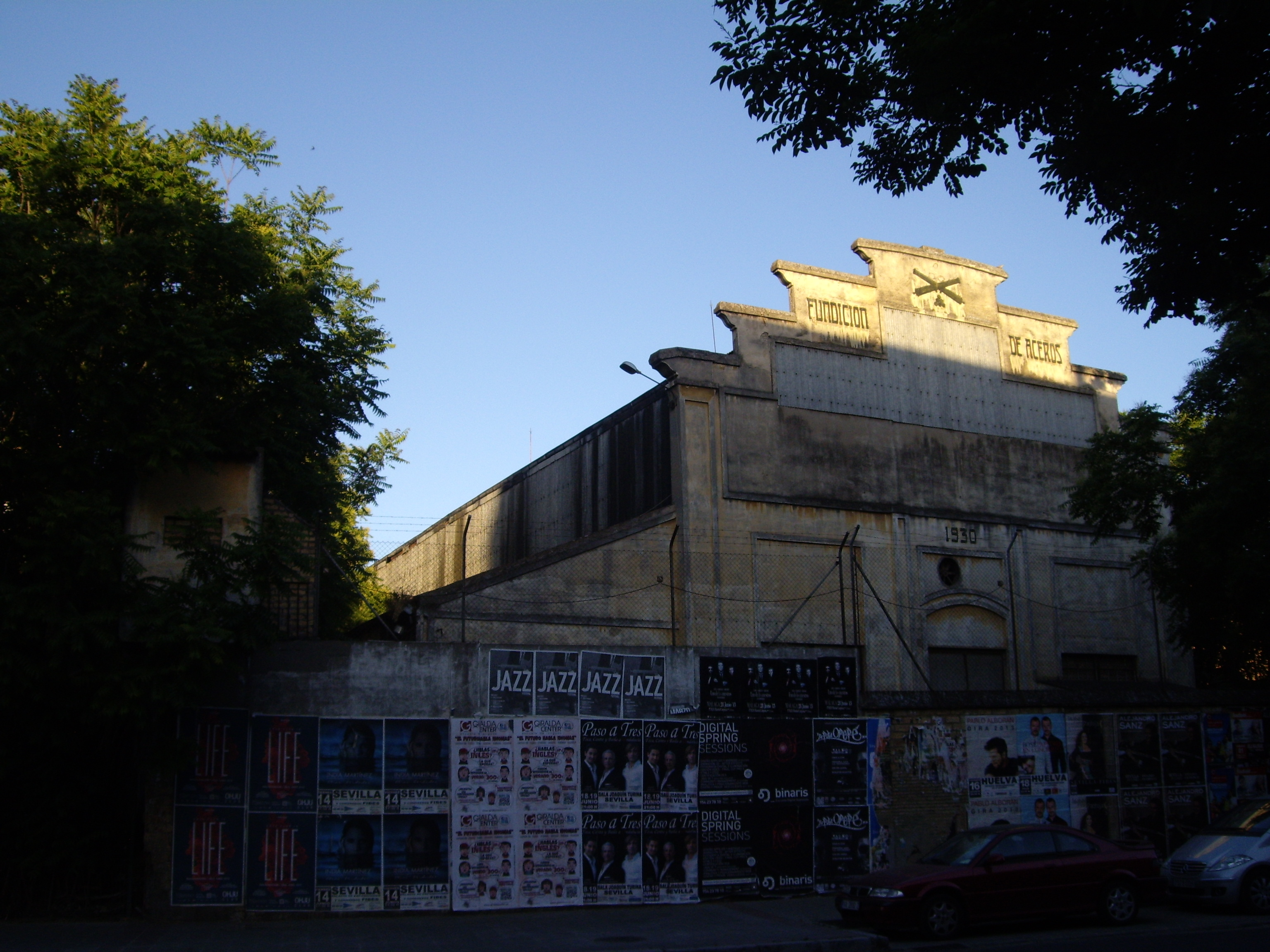 Nave de Fundición de Aceros de Sevilla. Construida en los años 30, se encuentra a apenas a varias decenas de metros de la Real Fábrica de Artillería. Esta nave era usada para la fundición de cañones.